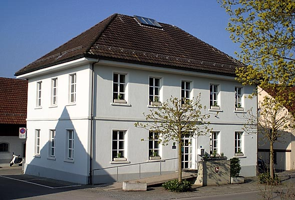 Council building (old school) in Lengnau, 13th April 2003